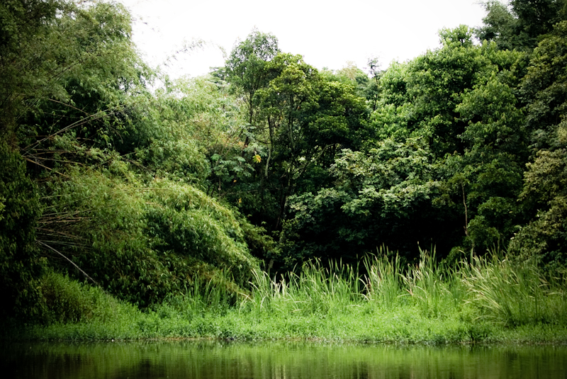 Green area in the Jardim Nova Europa neighborhood, in Hortolândia, São Paulo, Brazil.